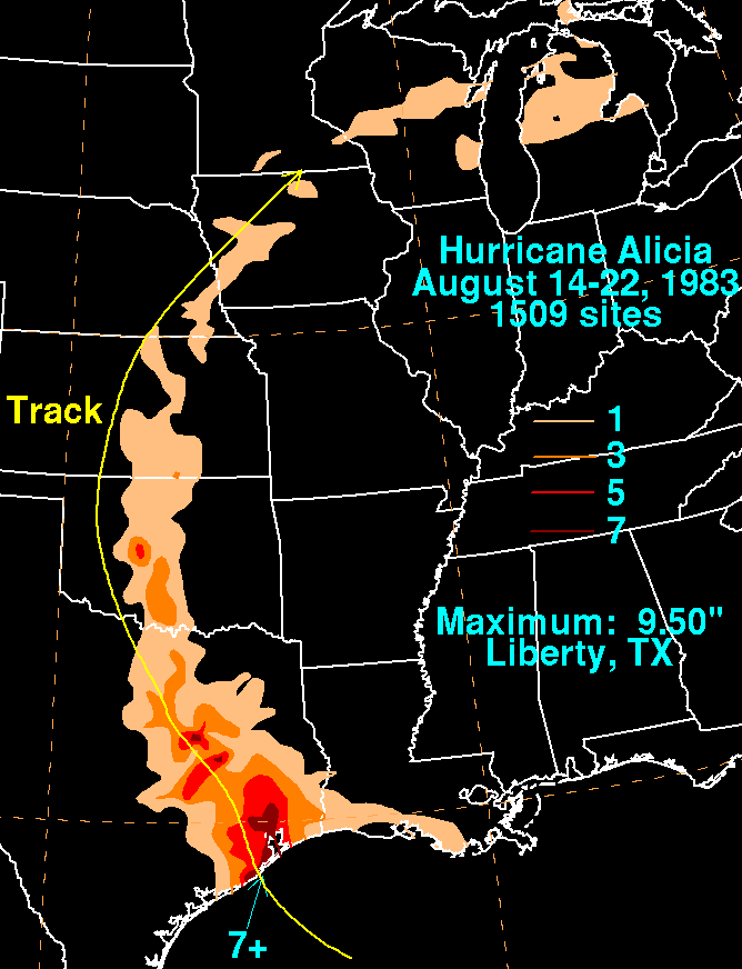 Rainfall produced by Hurricane Alicia during August 1983.